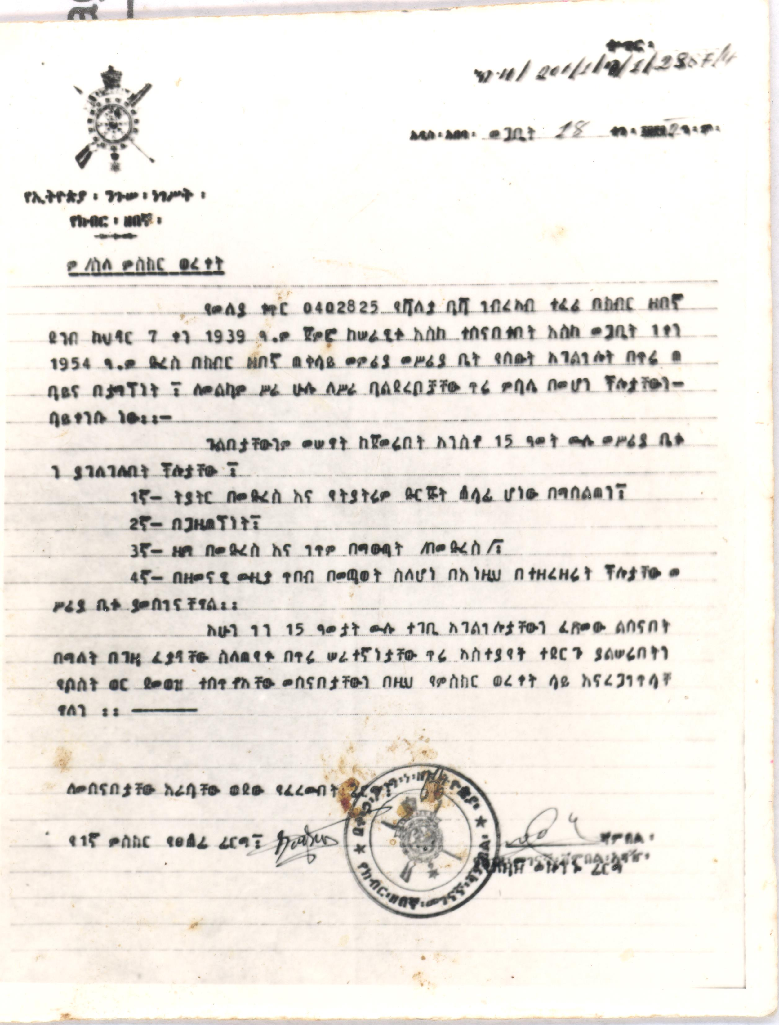 Approval of resignation and appreciation of hard work for his country